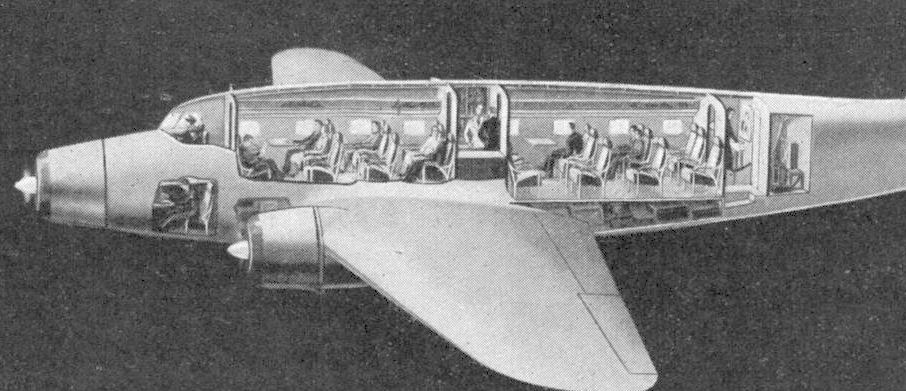 SM-75 cutaway drawing from L'Aerophile June 1938